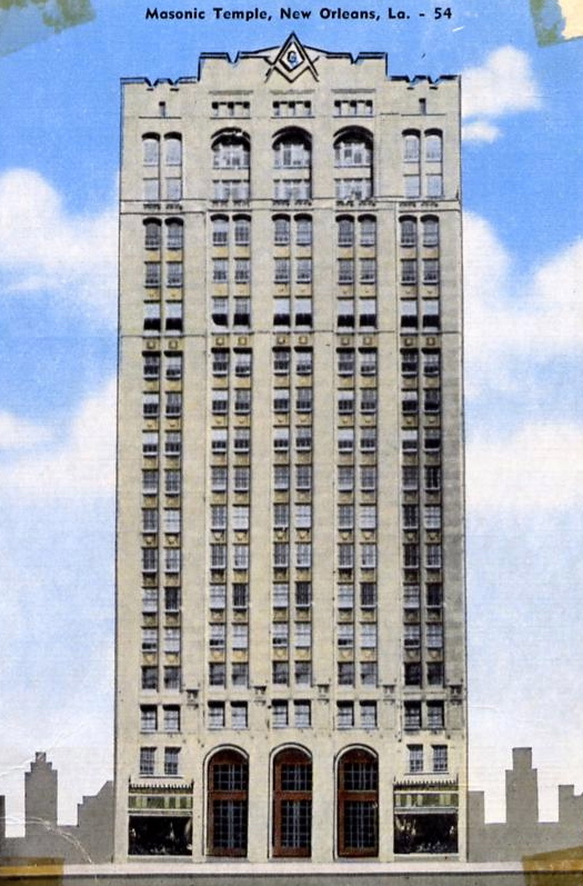 Postcard of New Orleans Masonic Temple. This was the new (third) highrise Masonic building post World War I, after the old Masonic Building. Still standing on St. Charles Avenue, a block down from Poydras Street.